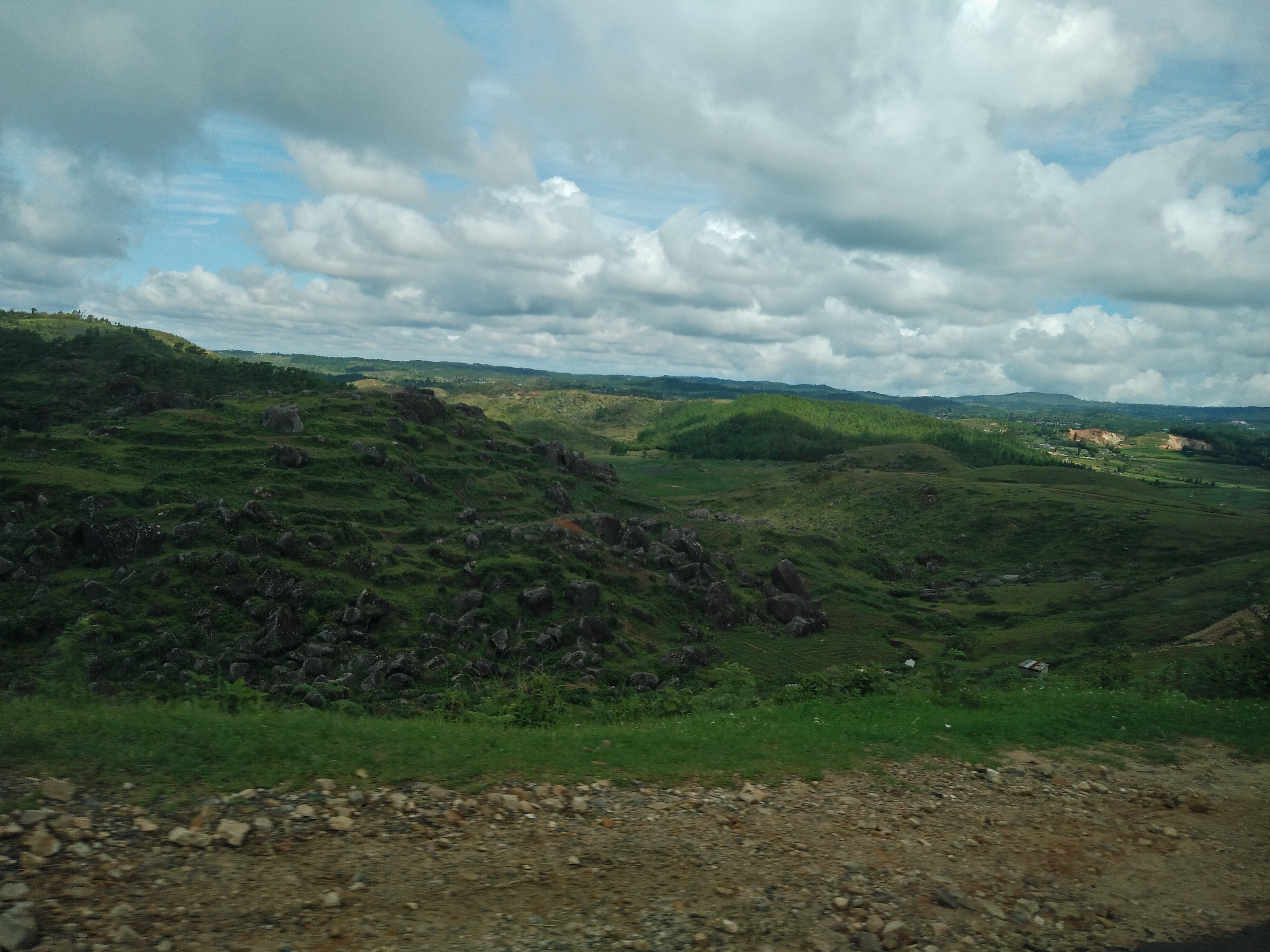 Thats cherrapunji..Greenery everywhere you see